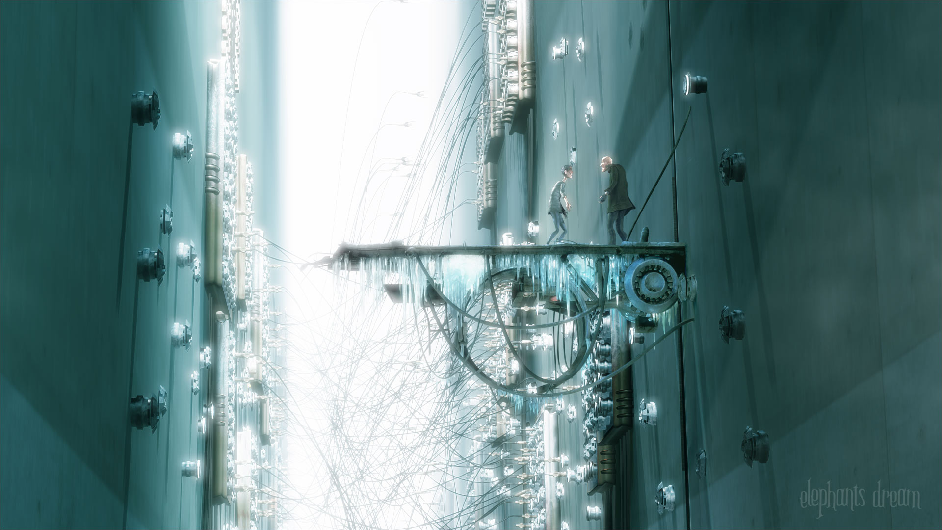 Image from the film Elephants Dream.